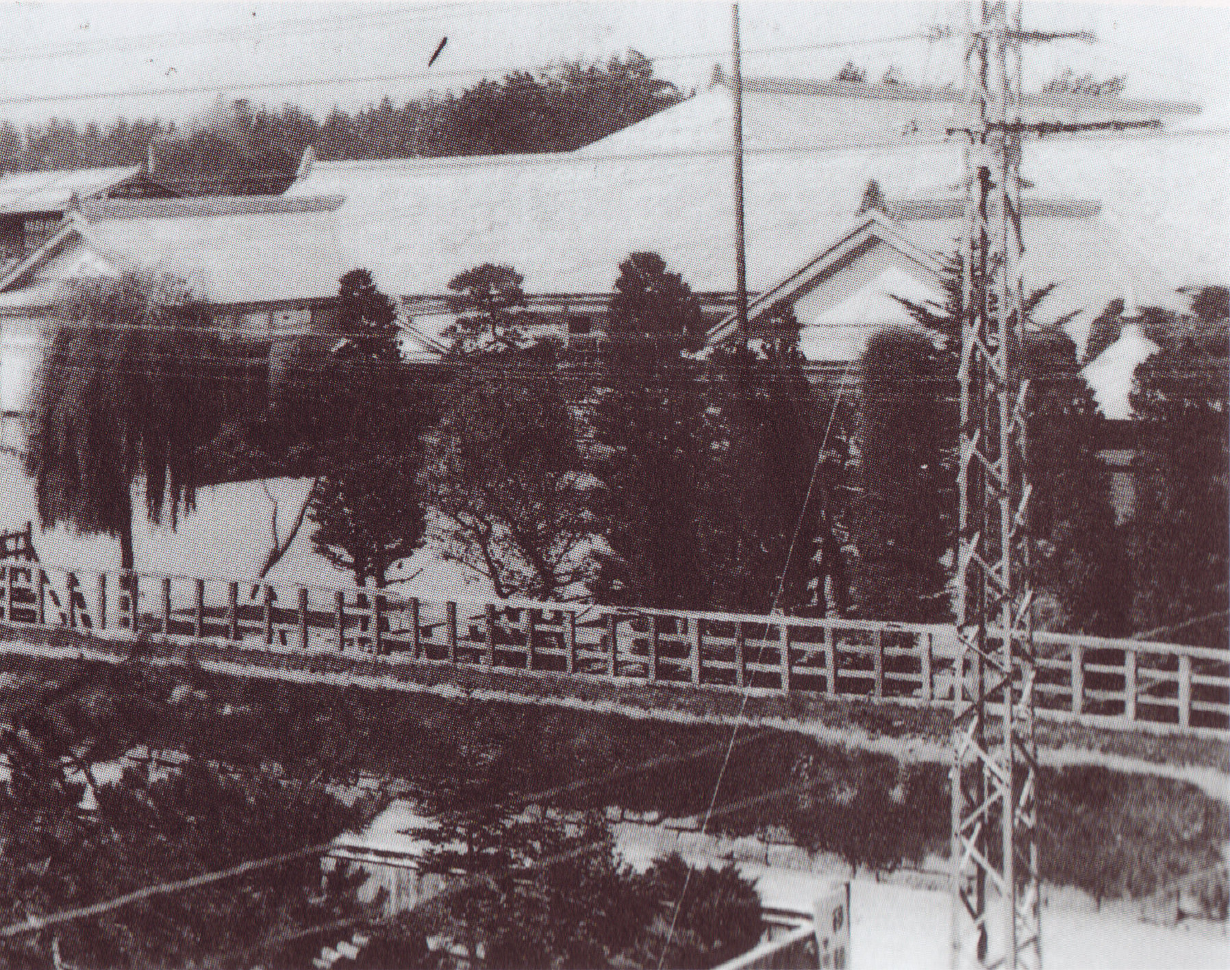 Shirogane Elementary School in Hirosaki, Aomori pref., Japan.